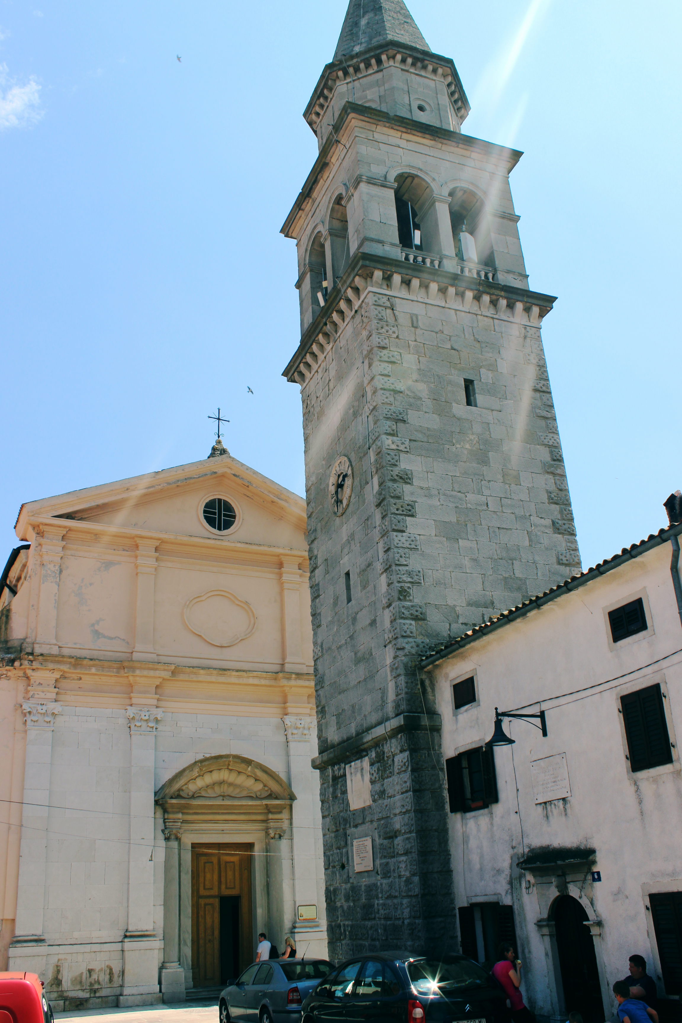 Parish Church of the Blessed Virgin Mary (Župna crkva Blažene Djevice Marije) with Bell Tower, in Buzet, Croatia